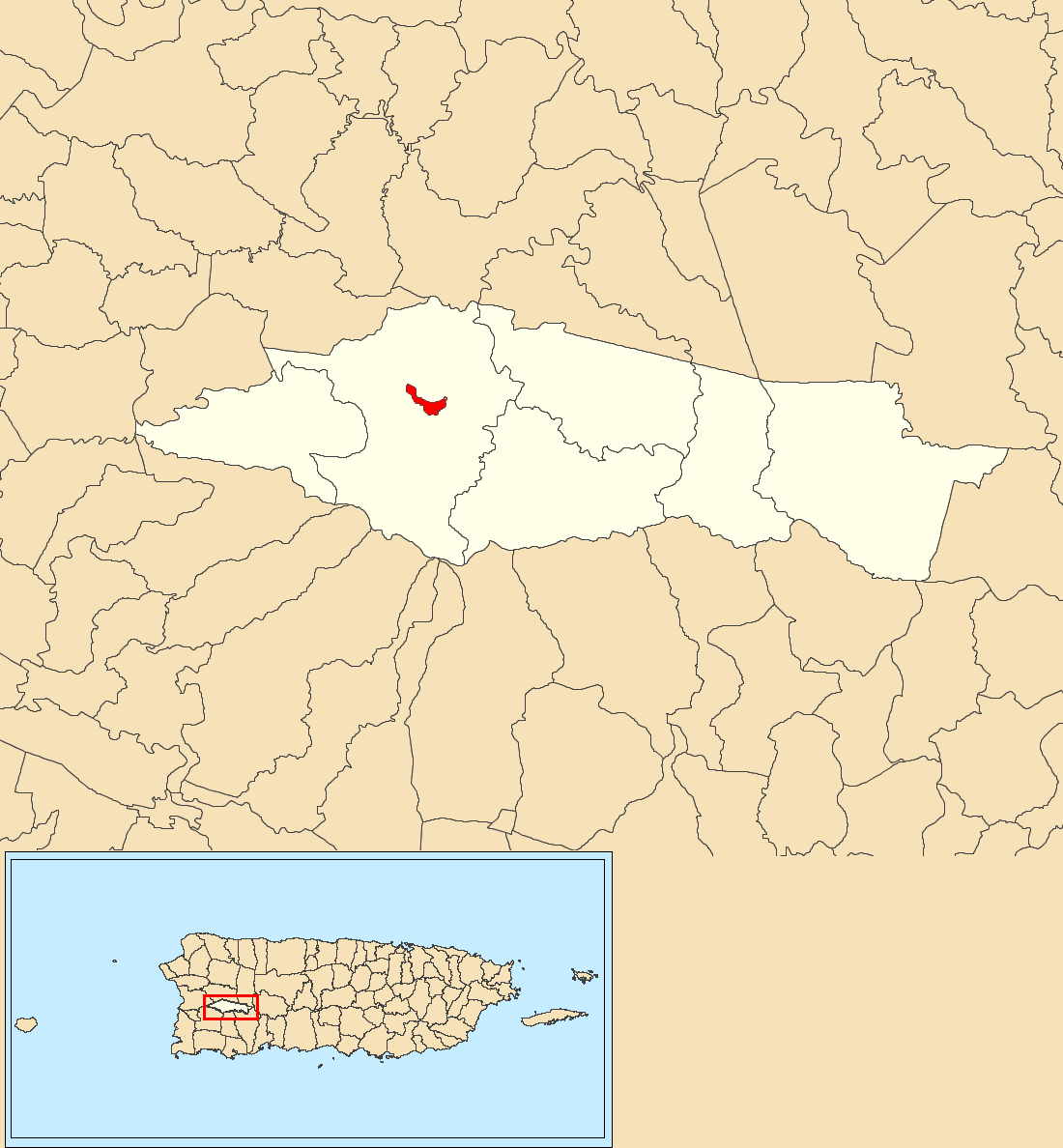 Maricao barrio-pueblo, Maricao, Puerto Rico locator map